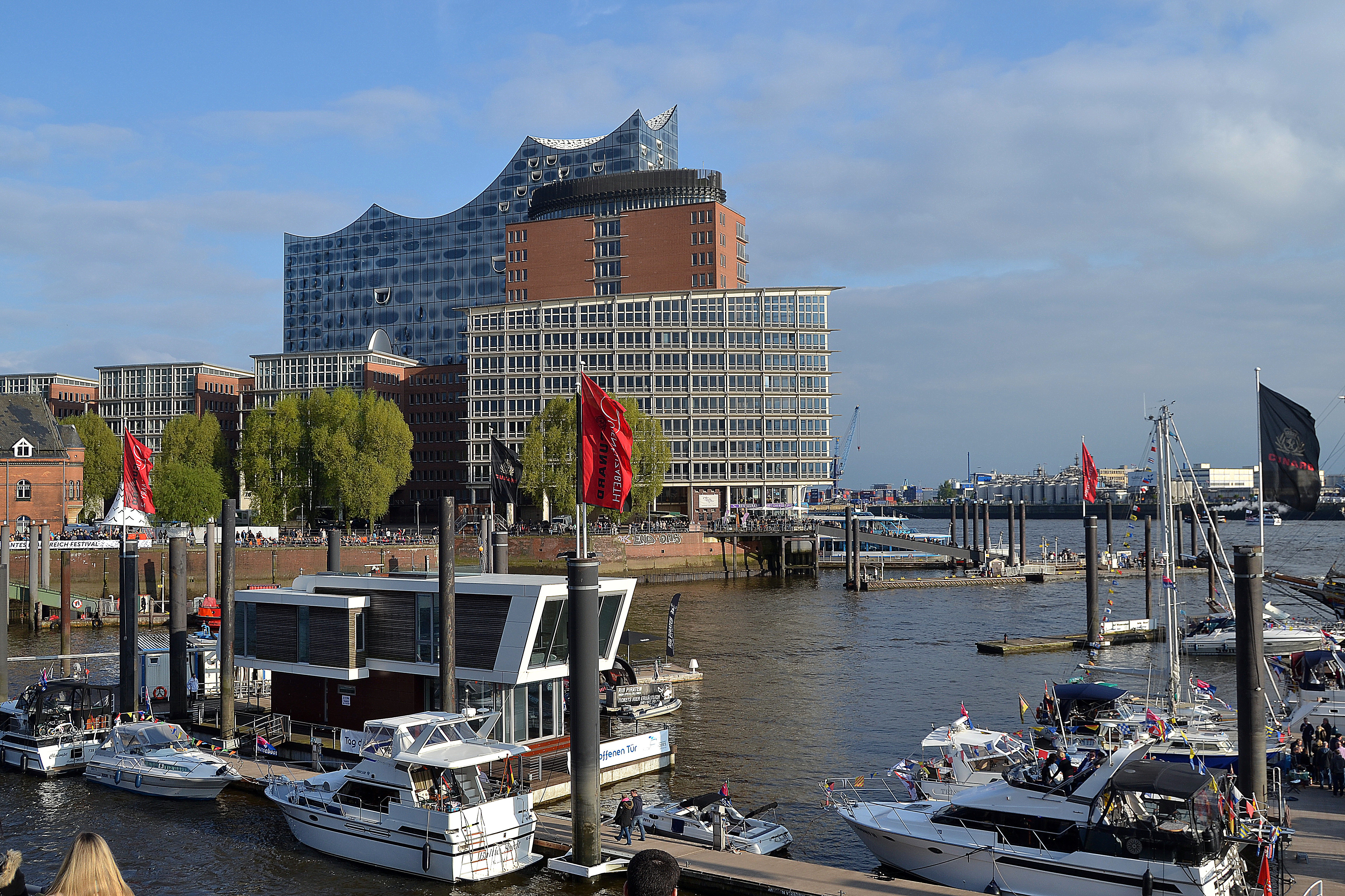 Hamburg, Germany: Elbphilharmonie